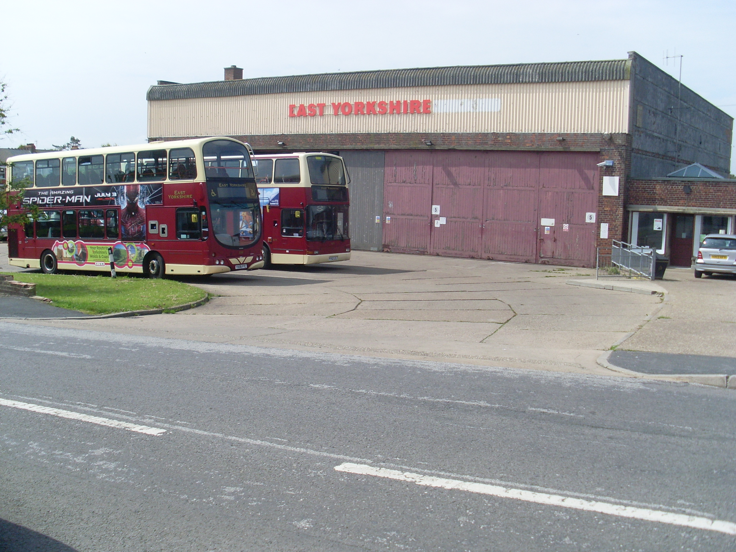 East Yorkshire Bus Depot, Hornsea, East Riding of Yorkshire, England.Situated in Cliff Road, this bus depot has 14 vehicles and runs services to Beverley, Bridlington, Hull and Withernsea. The front vehicle on the left of the photo is 729 (YX08 FYC) a 2008 Volvo B9TL @ Wrightbus Eclipse Gemini... more.